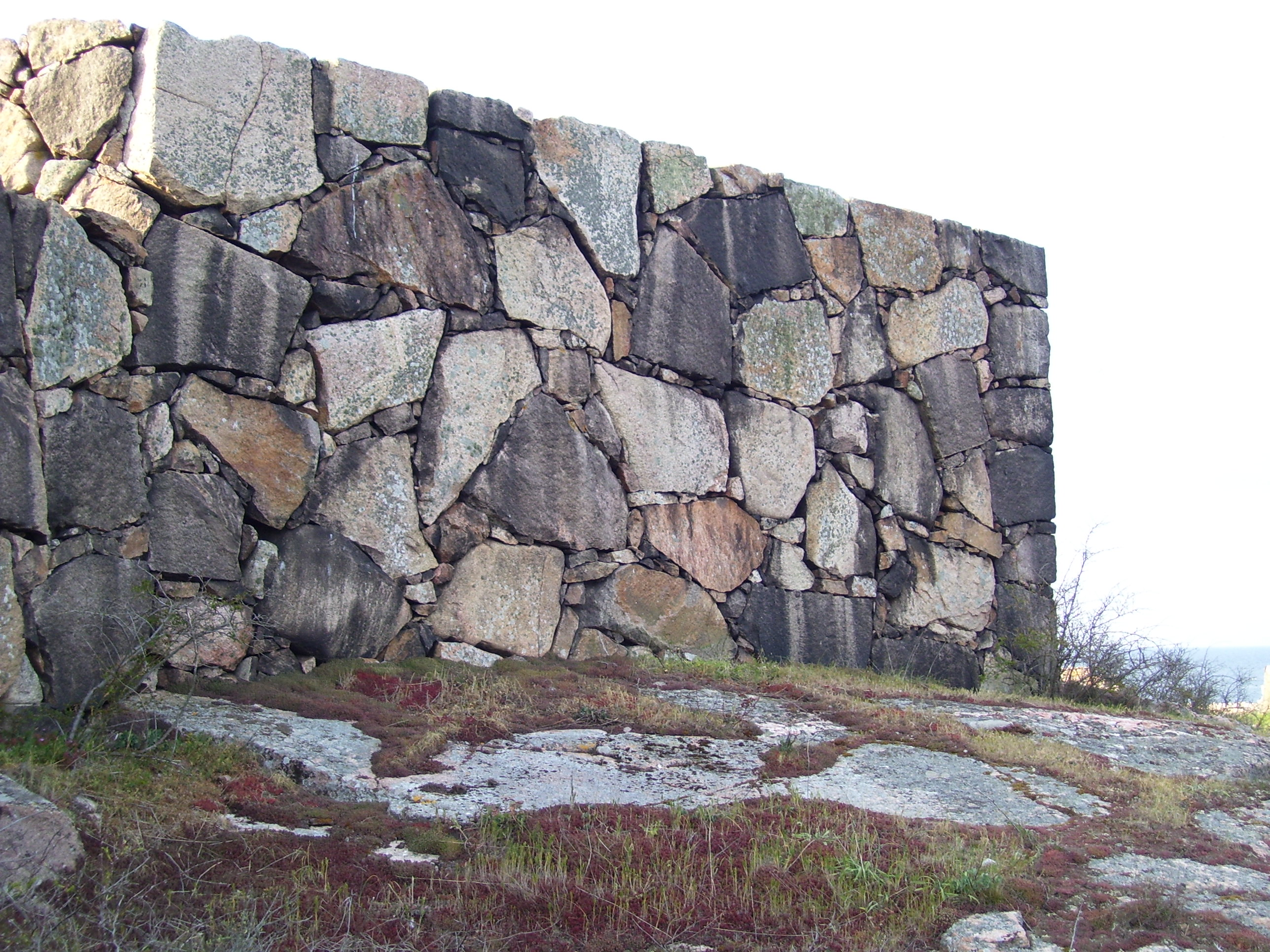 Christianso - defensive wall